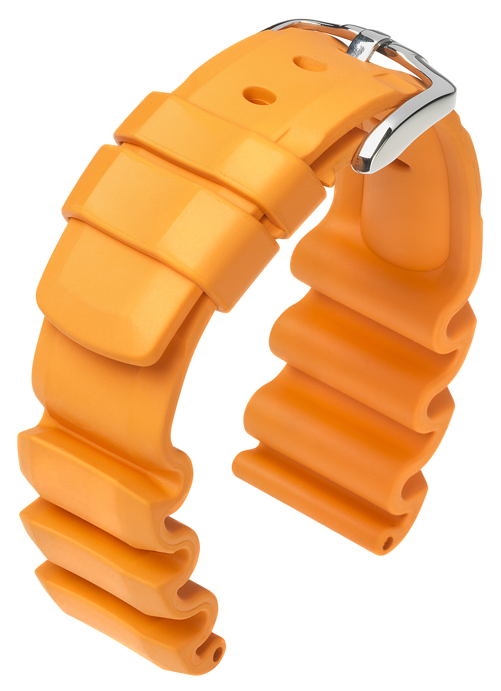 Caoutchouc watch strap (Extreme) for diving watches. With increasing depth and rising water pressure the (sleeved) wrist of a diver is exposed to compression effects that have a shrinking effect on the wrist circumference. Many watchstraps intended for diving watches have rippled or vented sections near the attachment points on the watch case to facilitate the required flexibility to strap the watch exaggerated tight for normal wear at the surface whilst keeping the watch adequately tight in place on the divers wrist at depth.